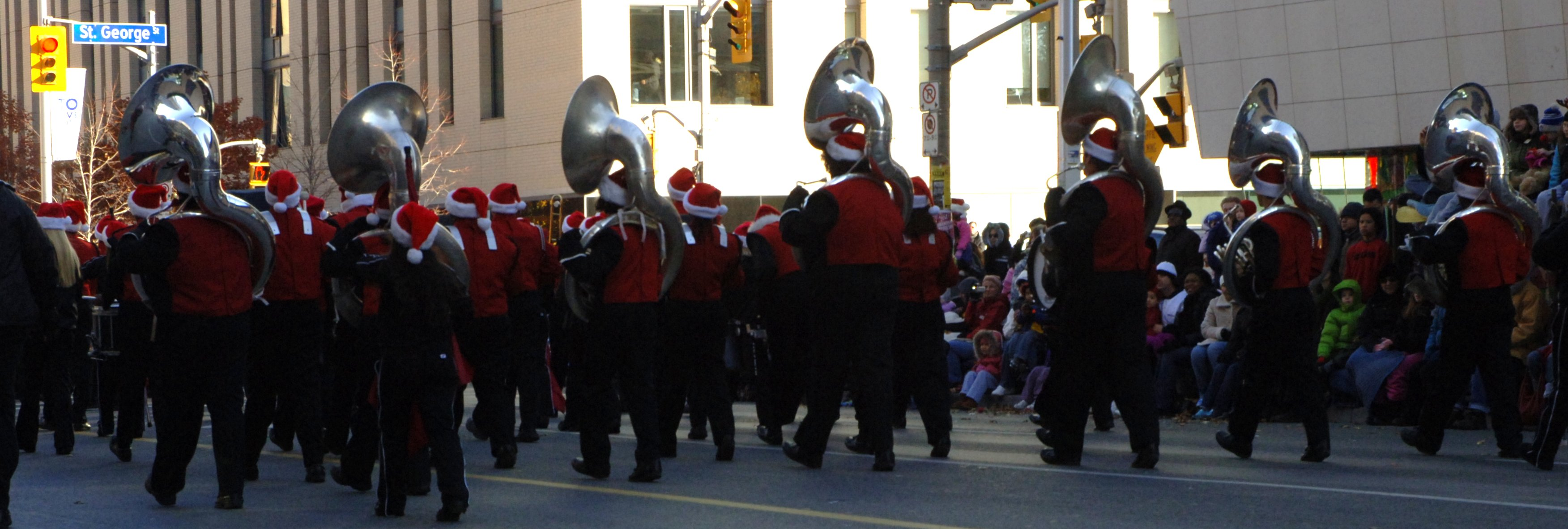 Picture of Sousaphones (wearable tubas) in the Santa Claus parade